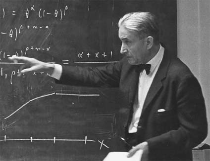 Photograph of the Finnish mathematician Gustav Elfving (1908–1984).